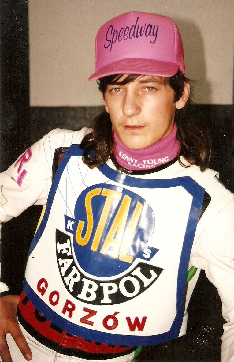 Marek Hućko - polish speedway rider.